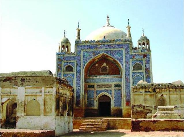 A precious Pic of Saint Amir Noor Muhammed Abbasi's Shrine